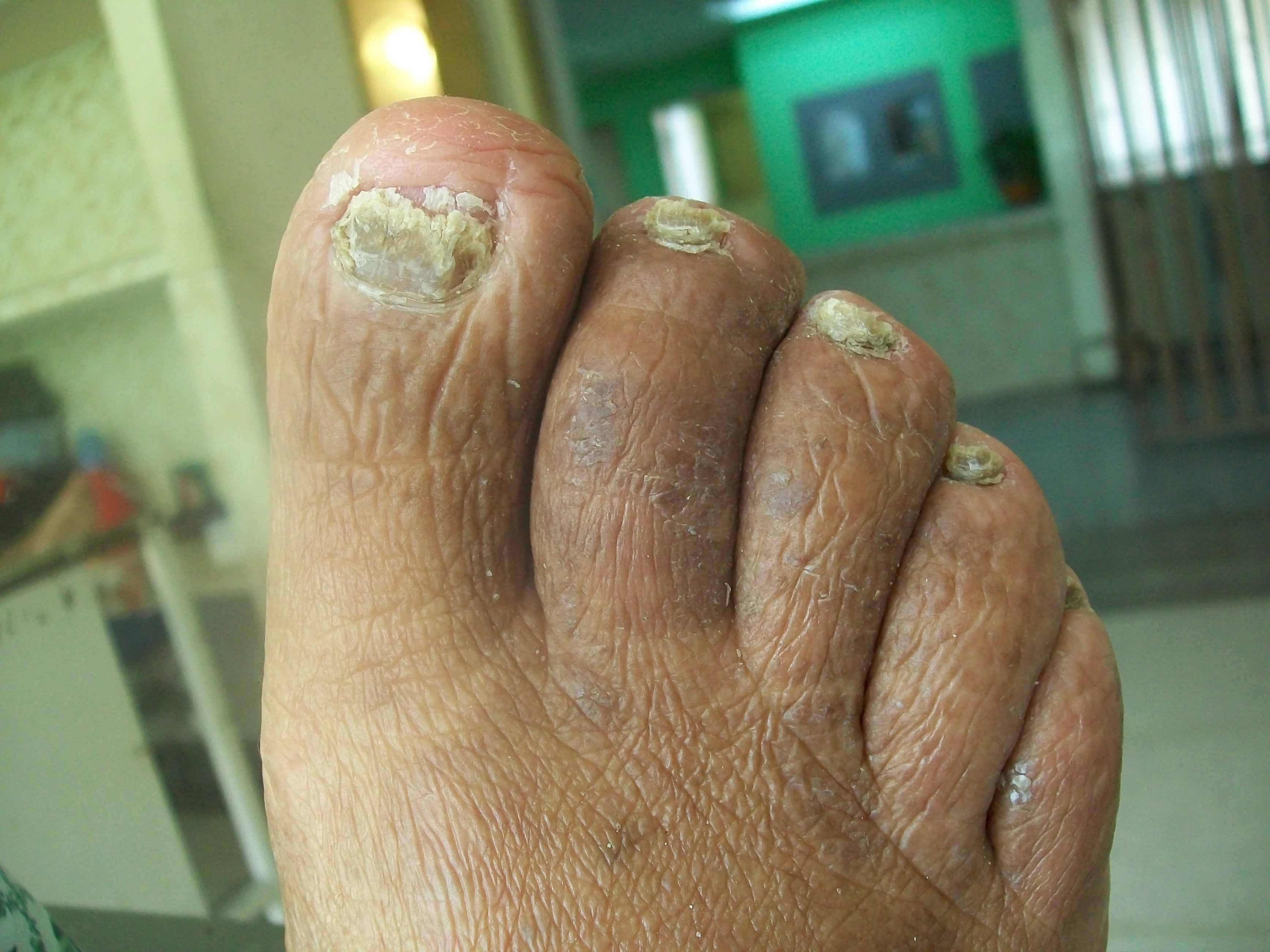 Onychomycosis